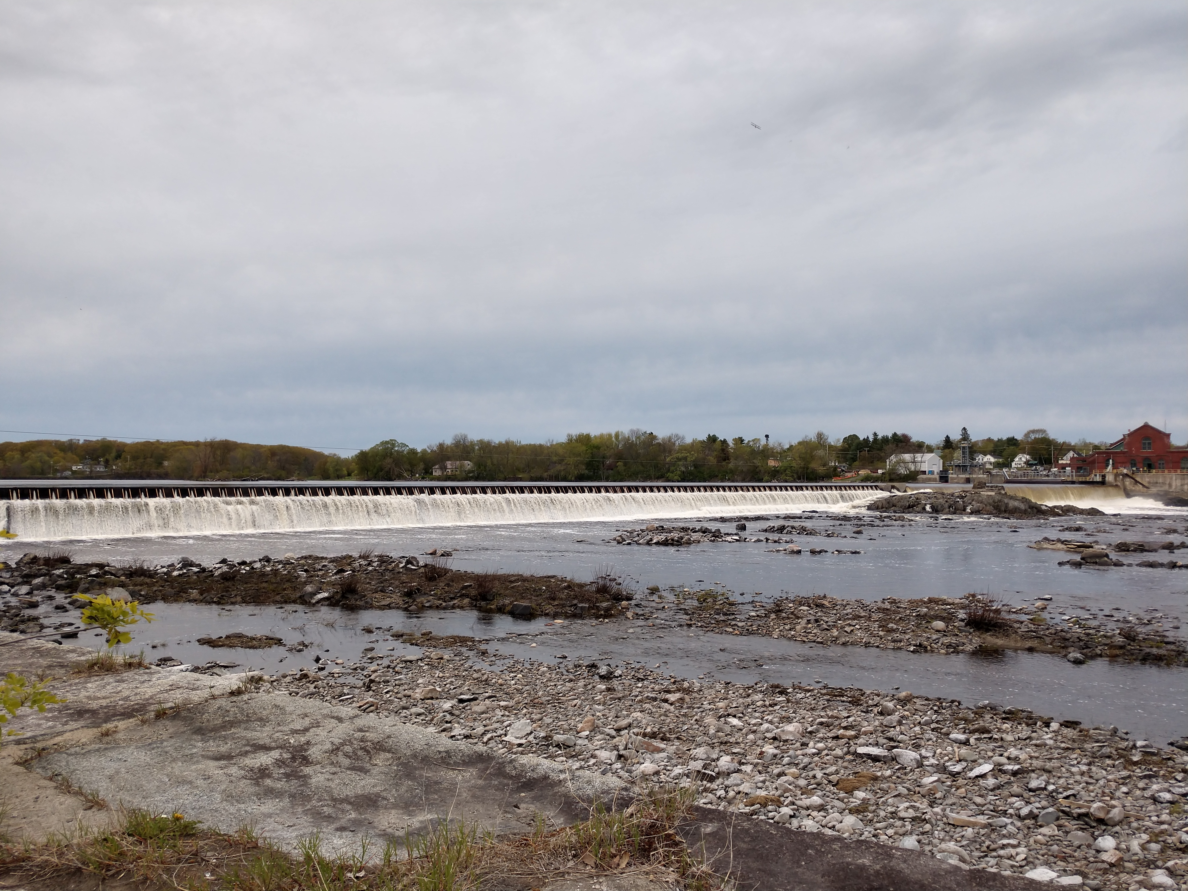 The Milford Dam, located between Old Town, Maine and Milford, Maine, on the Penobscot River in May 2018.